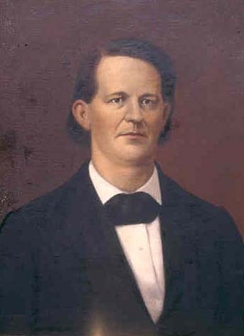 Portrait of Thomas Reade Rootes Cobb painted by Horace James Bradley c. 1860